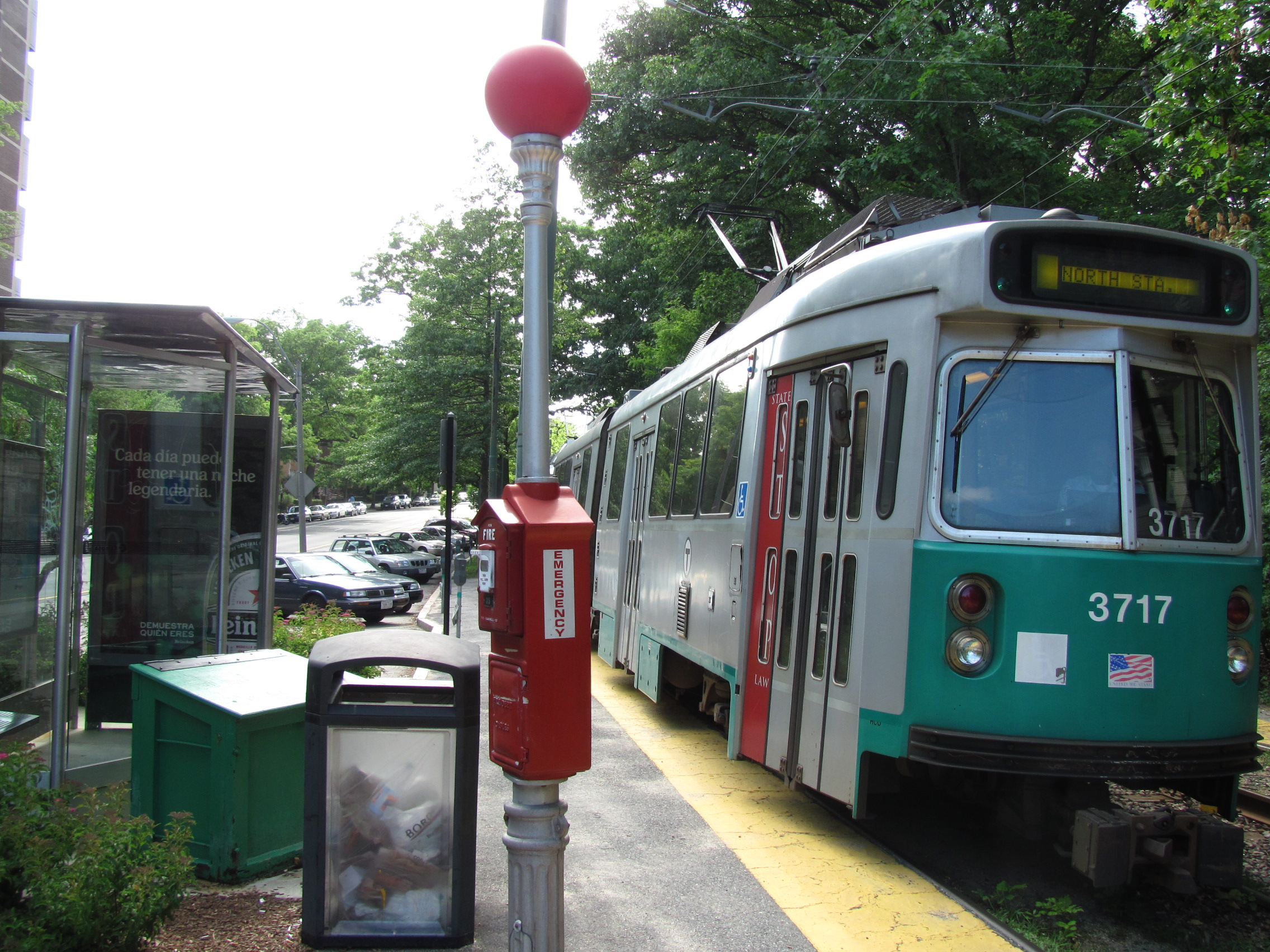 Brandon Hall MBTA station, Brookline Massachusetts